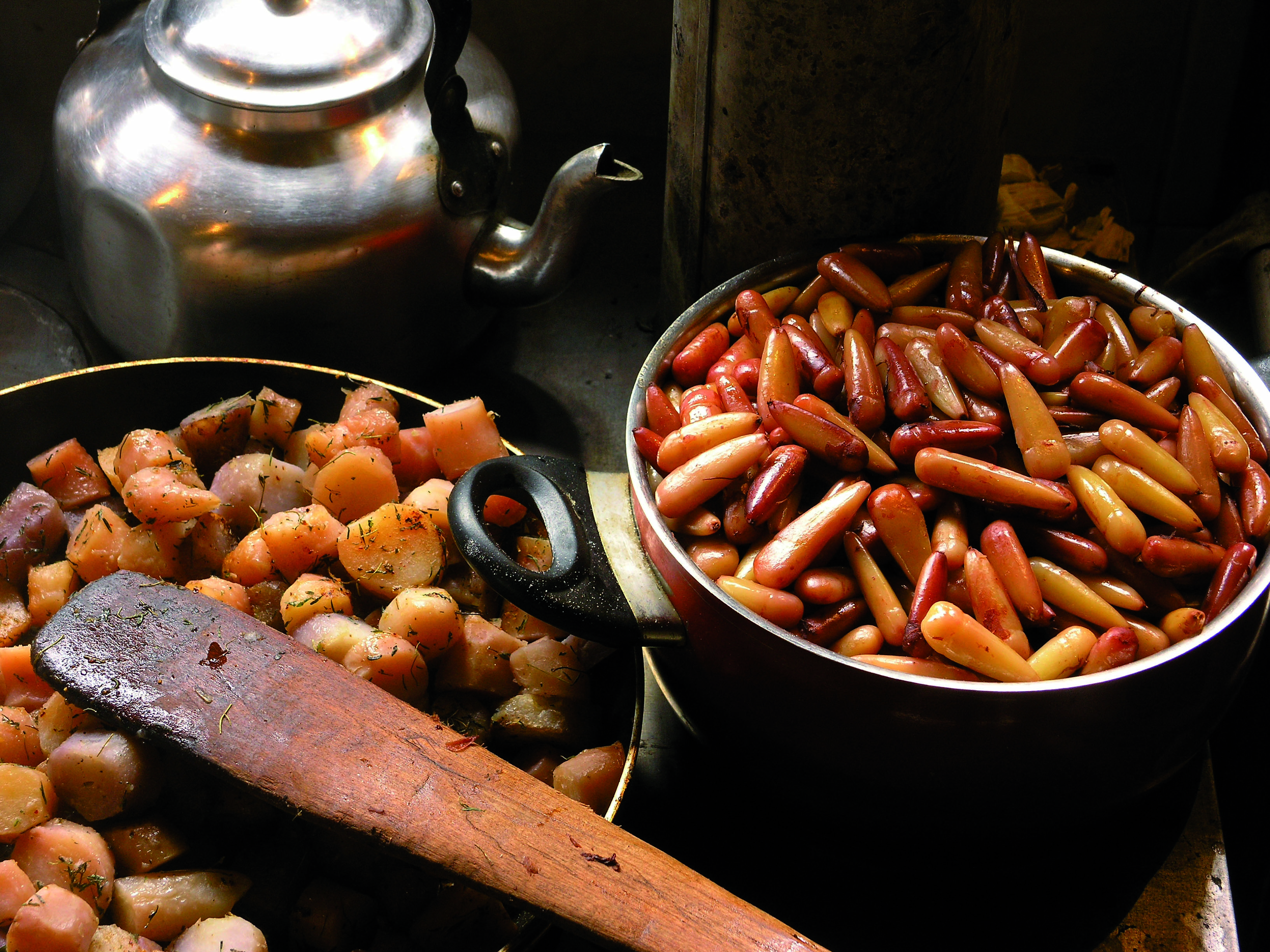 Cultura Mapuche ©Turismo Chile Have a look a our tour package